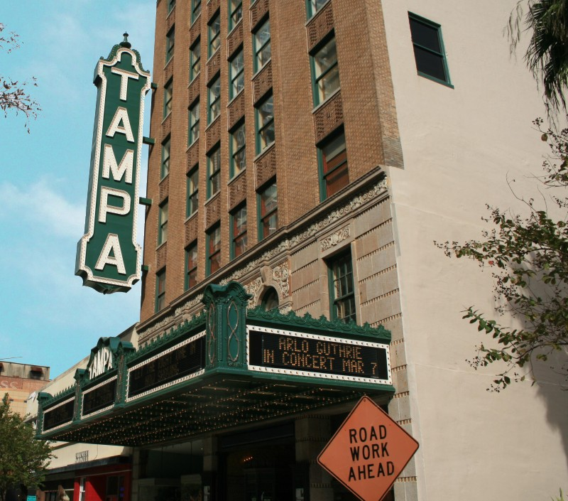 Tampa Theater